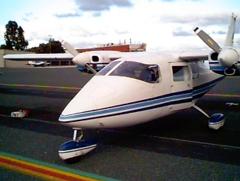 Vulcanair, Aircraft example: Partenavia P68 (VH-PNT) at Jandakot Airport, Jandakot, Australia Michael L. Texler, Digital photo taken by self at Jandakot Airport Oct 2005